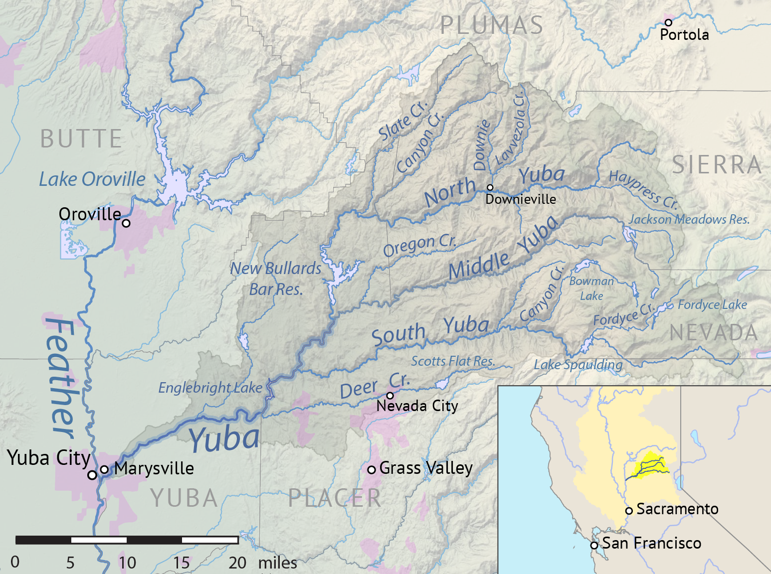 Map showing the Yuba River watershed in Northern California, USA with the Yuba River highlighted. Shaded relief from US Geological Survey.